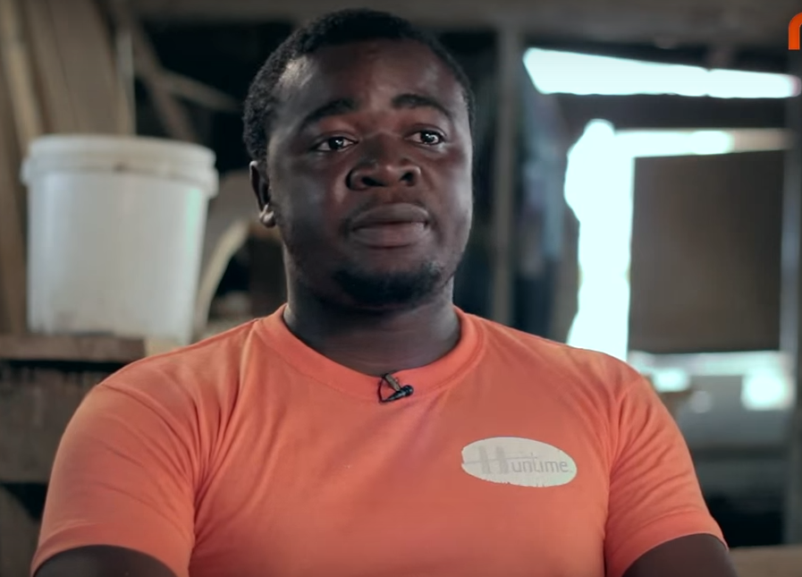 Eric Adjetey Anang (born 1985) is a Ghanaian fantasy coffin carpenter. He was born in Teshie, Ghana, where he runs the Kane Kwei Carpentry Workshop.